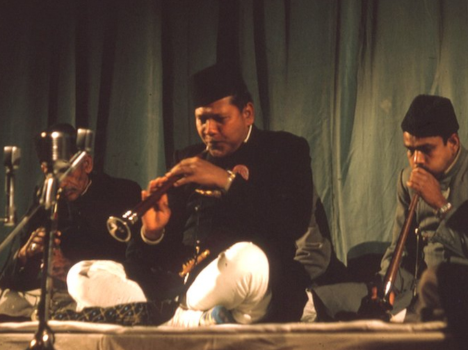 Photo of Bismillah Khan 1964, by Robert Garfias; Anthropology, UCI